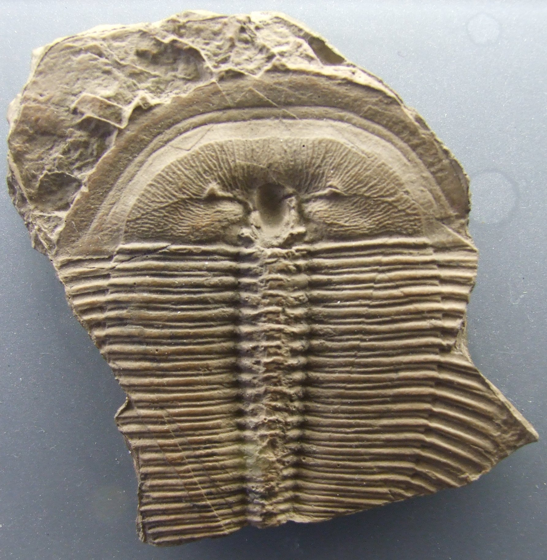 Crop of file in filename